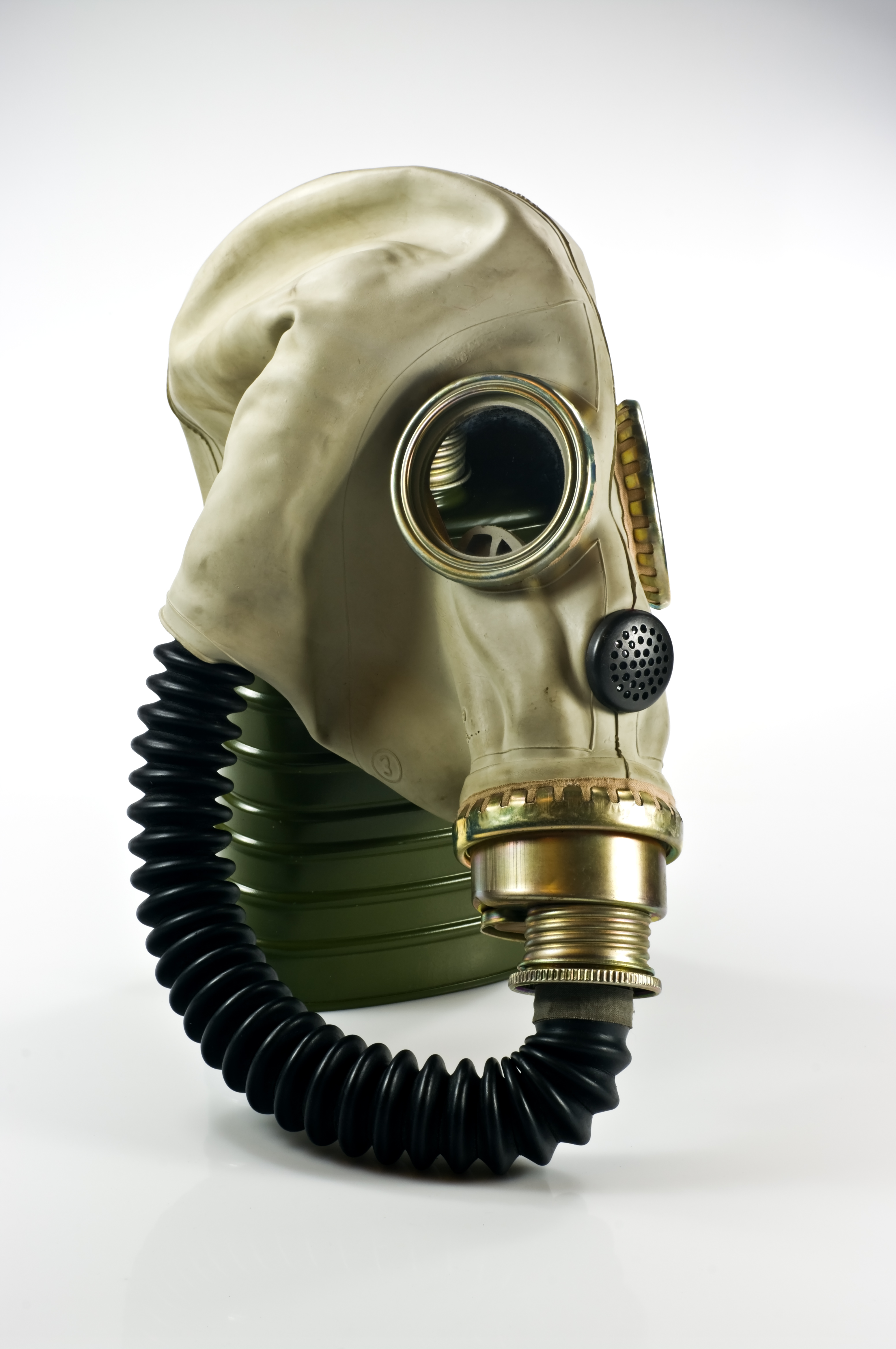 A Polish MUA Gas Mask. Used from the 1970's to the 1980's and was replaced by the Polish MP-4 gas mask.